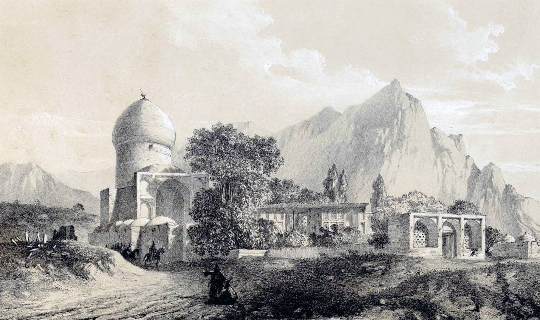 Imam Zadeh Koumijan , Iraq Adjemi